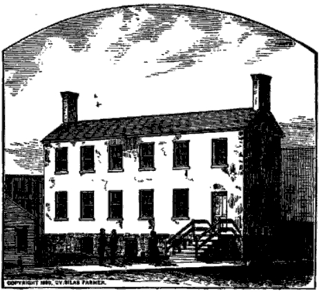 Drawing of the Catholepistemiad, or University of Michigania, in Detroit The original University building, built in 1817, at Bates and Congress in Detroit.